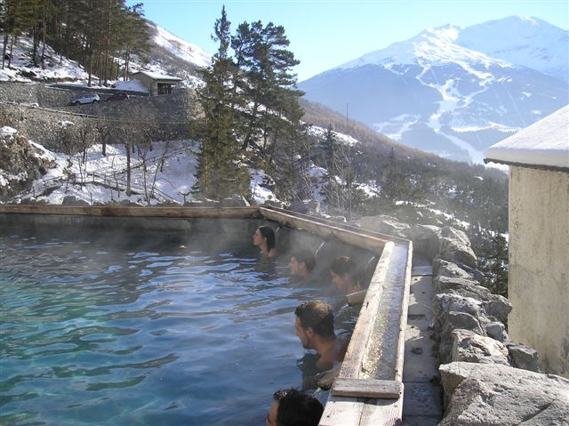 Bagni Vecchi open air thermal swimmingpool